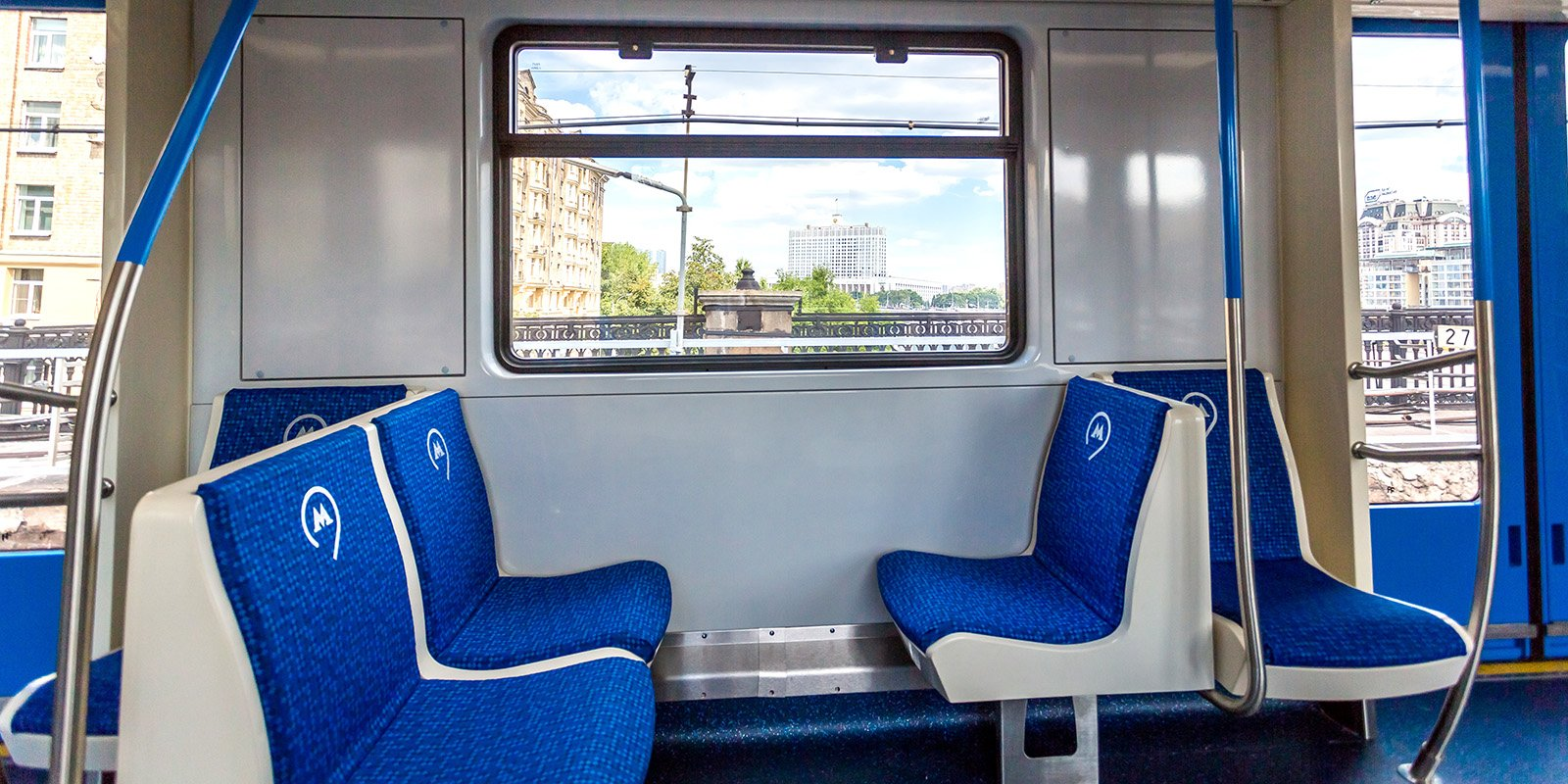 Seats and window in head car of electric subway train 81-765.2/766.2/767.2 «Moscow»